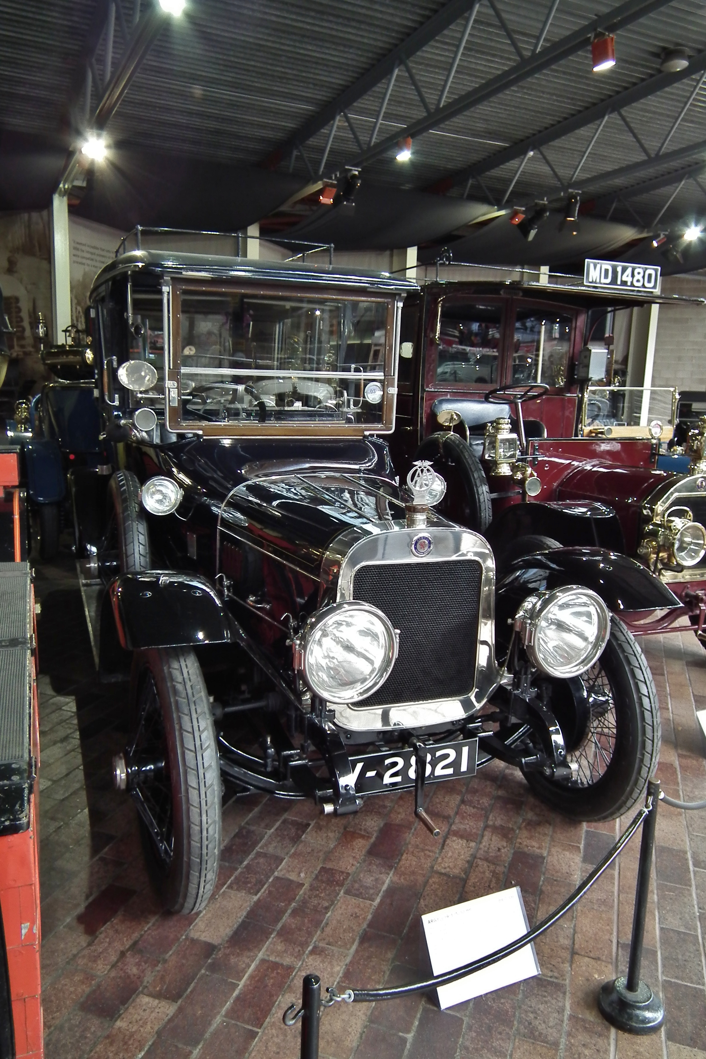 1913 Argyll 15/30 hp. Taken at the National Motor Museum in Beaulieu, Hampshire, England.